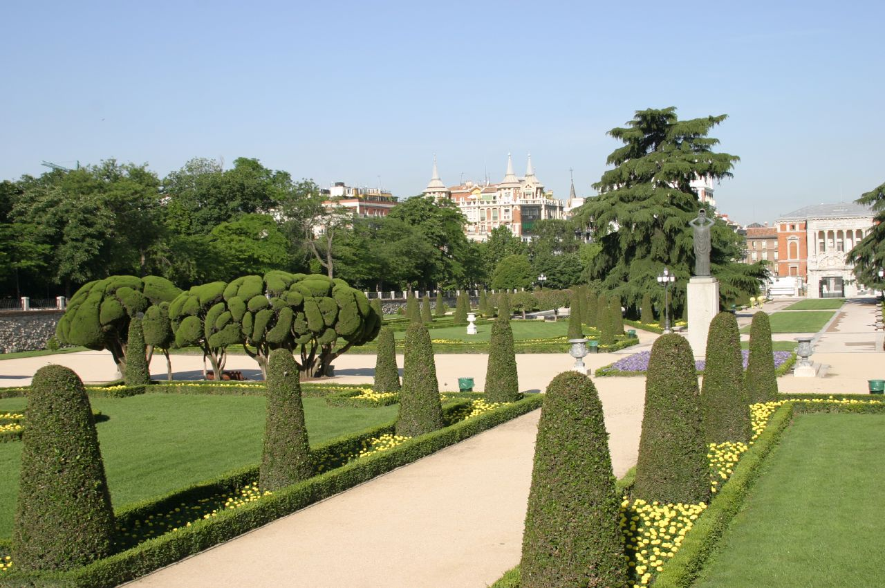 Plaza del Parterre. Part of the Retiro Park (Jardines del Buen Retiro) in Madrid (Spain).